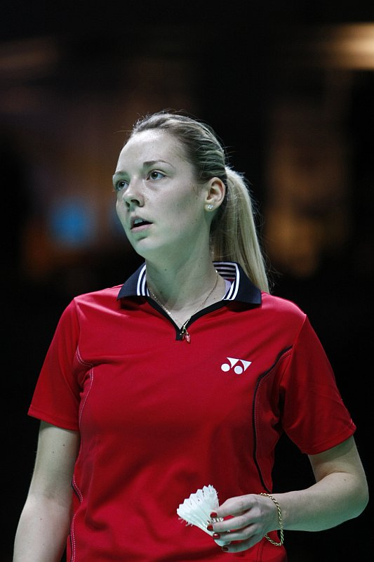 Gabrielle White